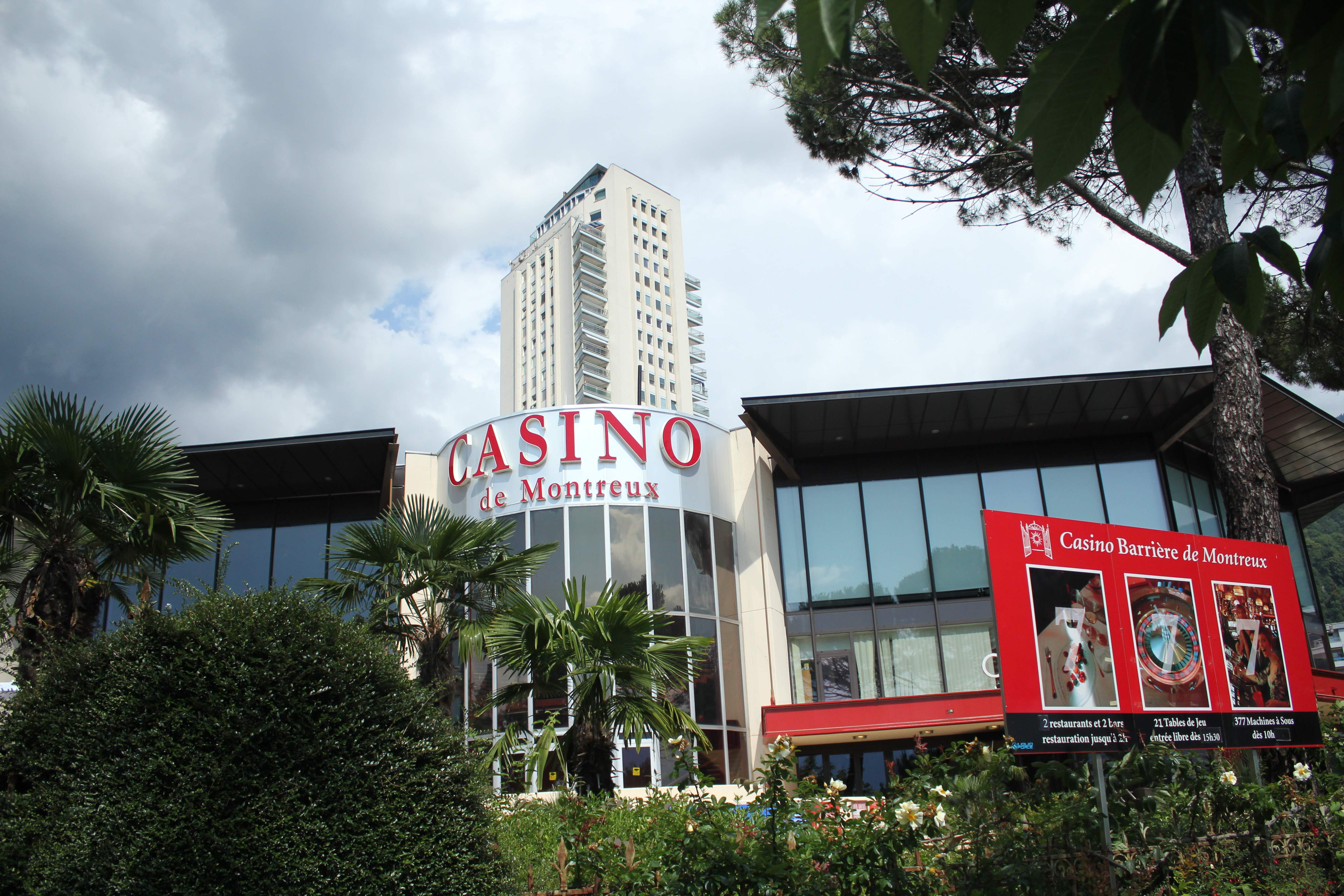 Montreux Queen Studio Experience Mercury Phoenix Trust